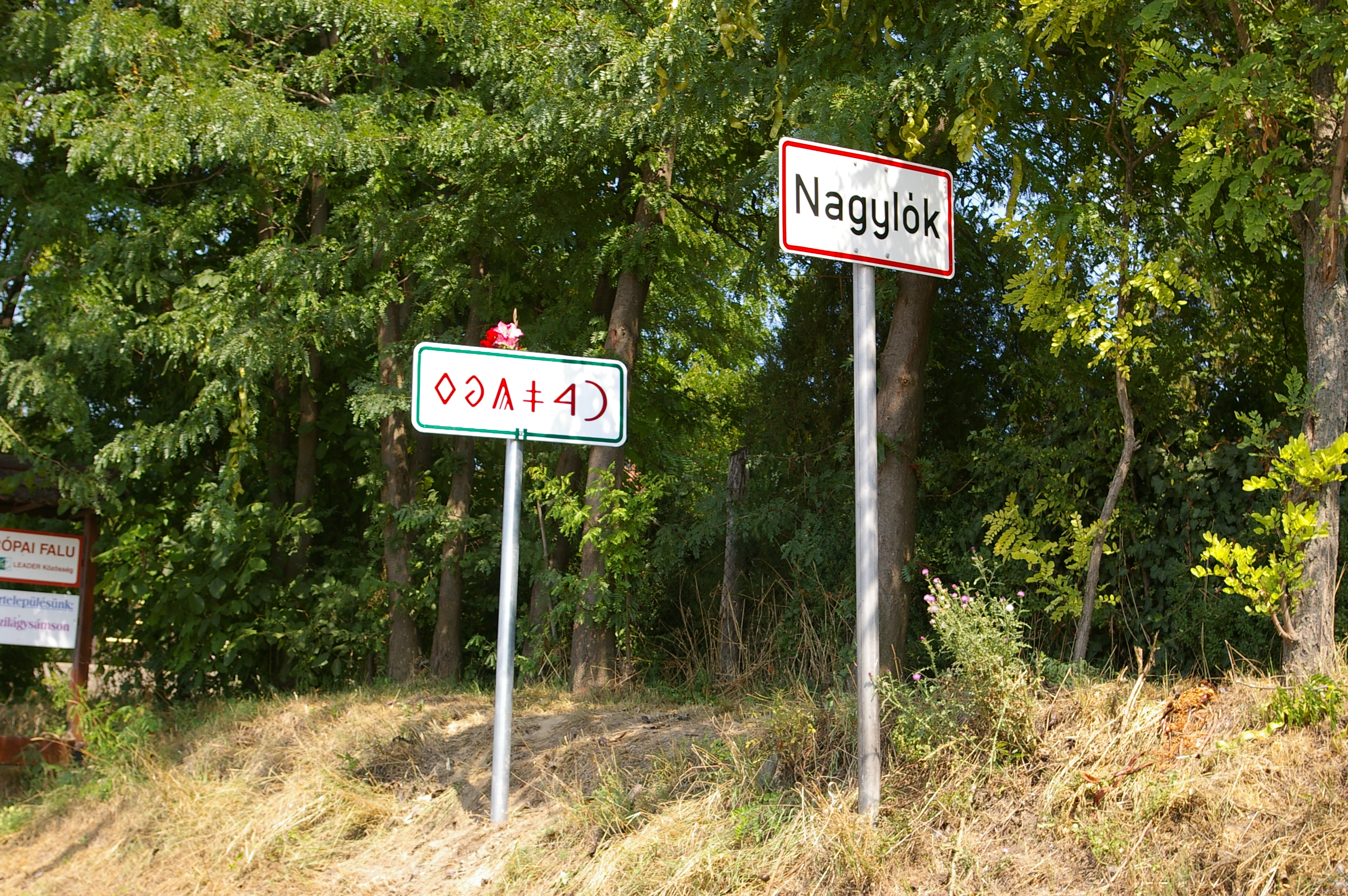 City limit table in Nagylók, Hungary. Traditional Hungarian letters (rovas)